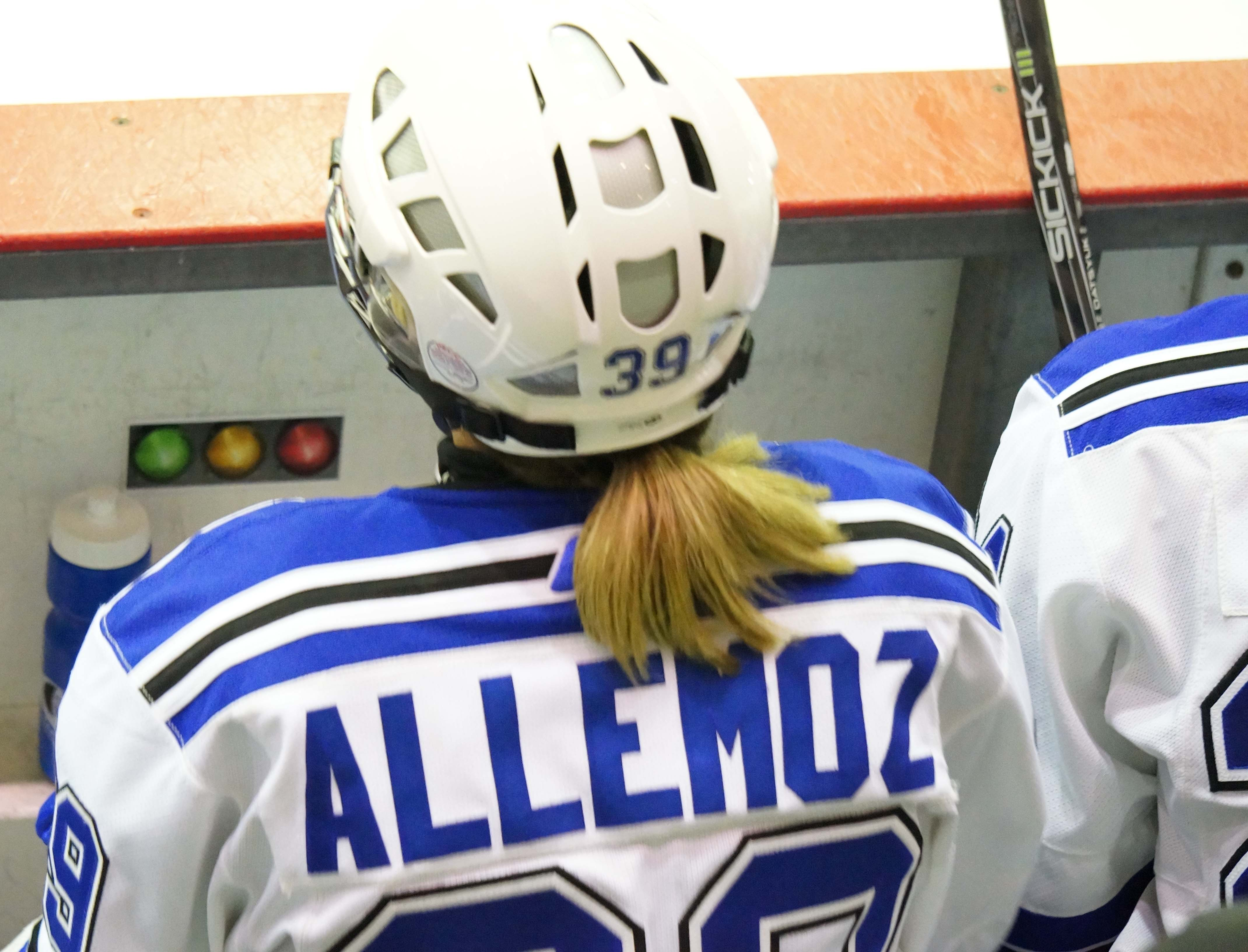 Montreal Carabins